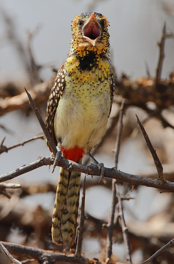 A D'Arnaud's Barbet at Samburu National Reserve, Kenya.